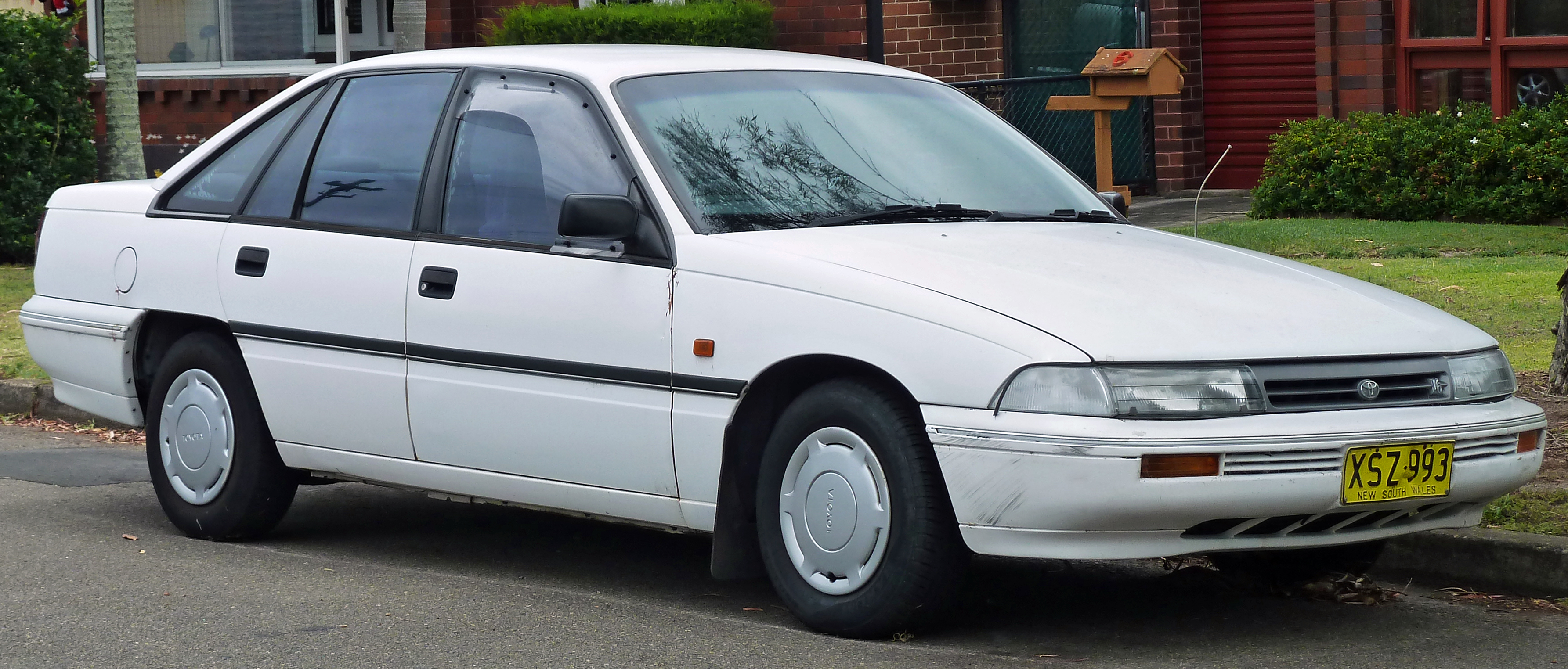 1991–1992 Toyota Lexcen (T2) CSi sedan. Photographed in Sans Souci, New South Wales, Australia.